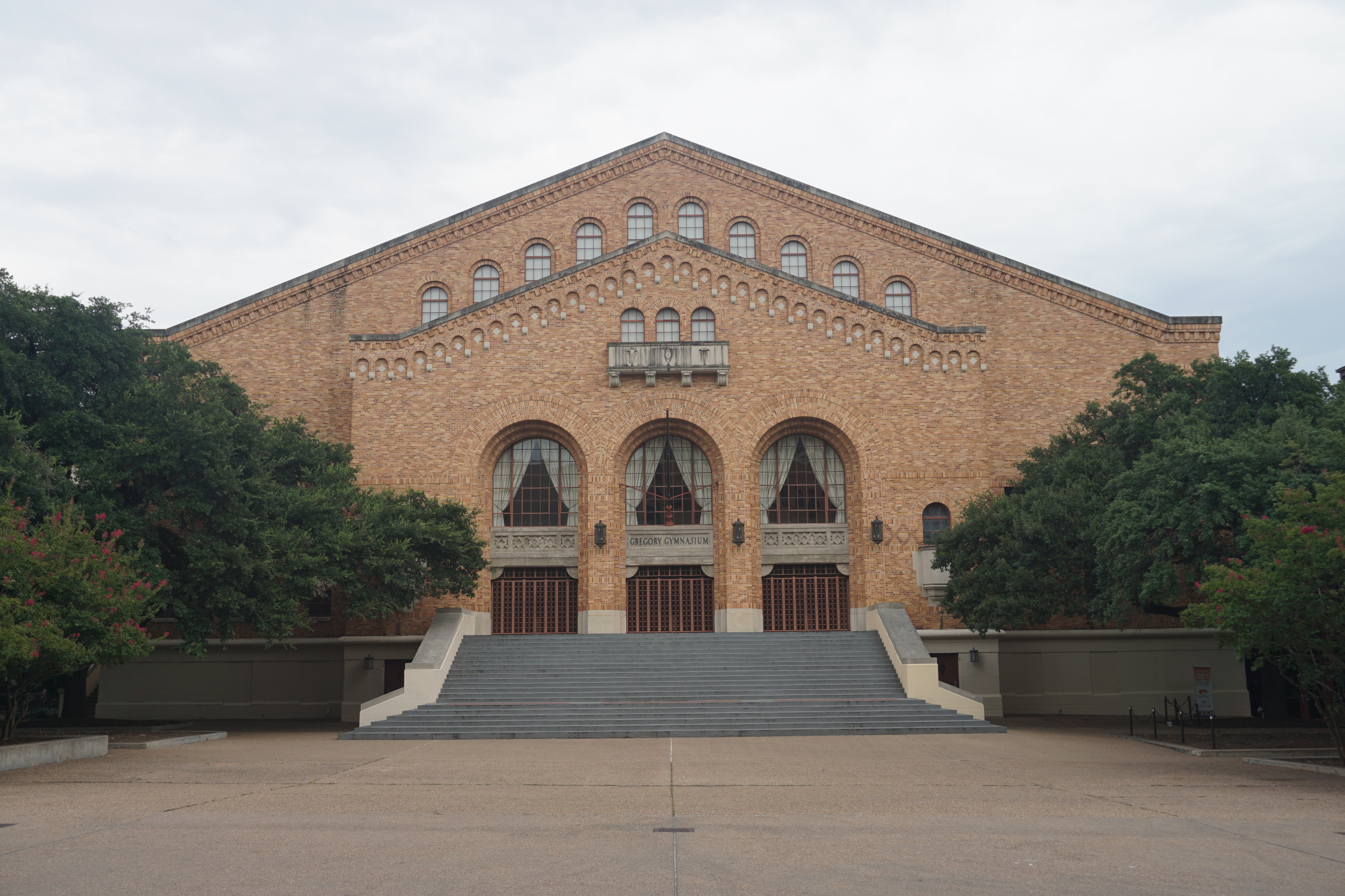 Gregory Gymnasium on the campus of the University of Texas at Austin in Austin, Texas (United States).